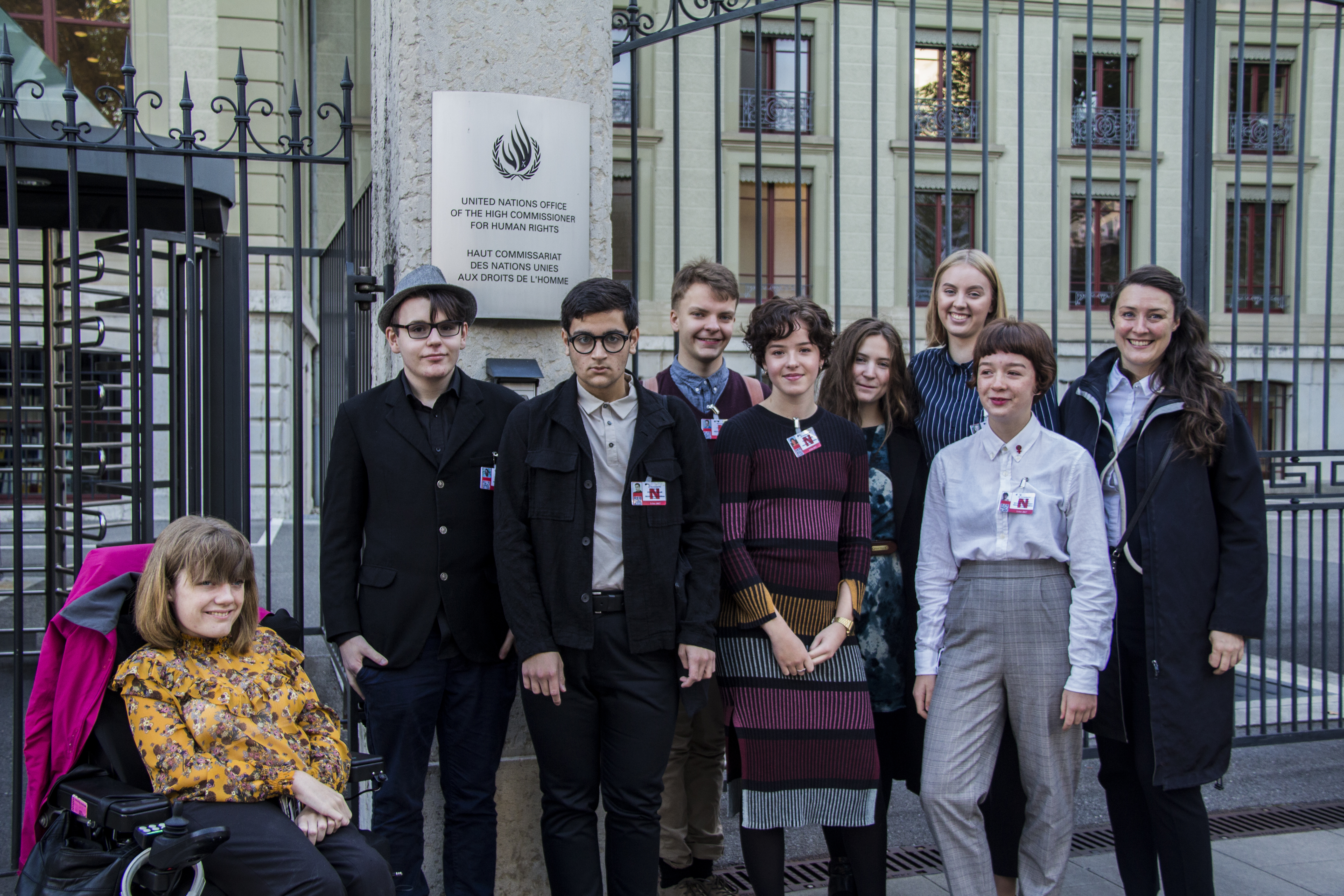 The Jebb Committee outside Office of the United Nations High Commissioner for Human Rights in Geneva